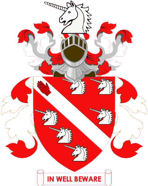 The armorial achievement of the Wombwell baronets of Wombwell